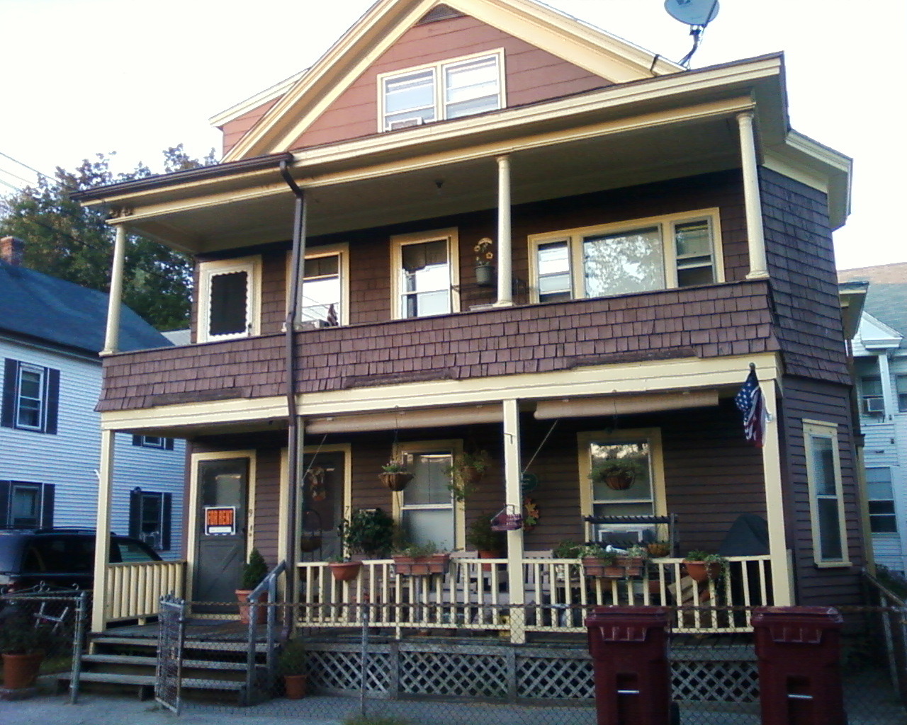 Jack Kerouac was born on 9 Lupine Road in Lowell MA, the 2nd floor apartment.